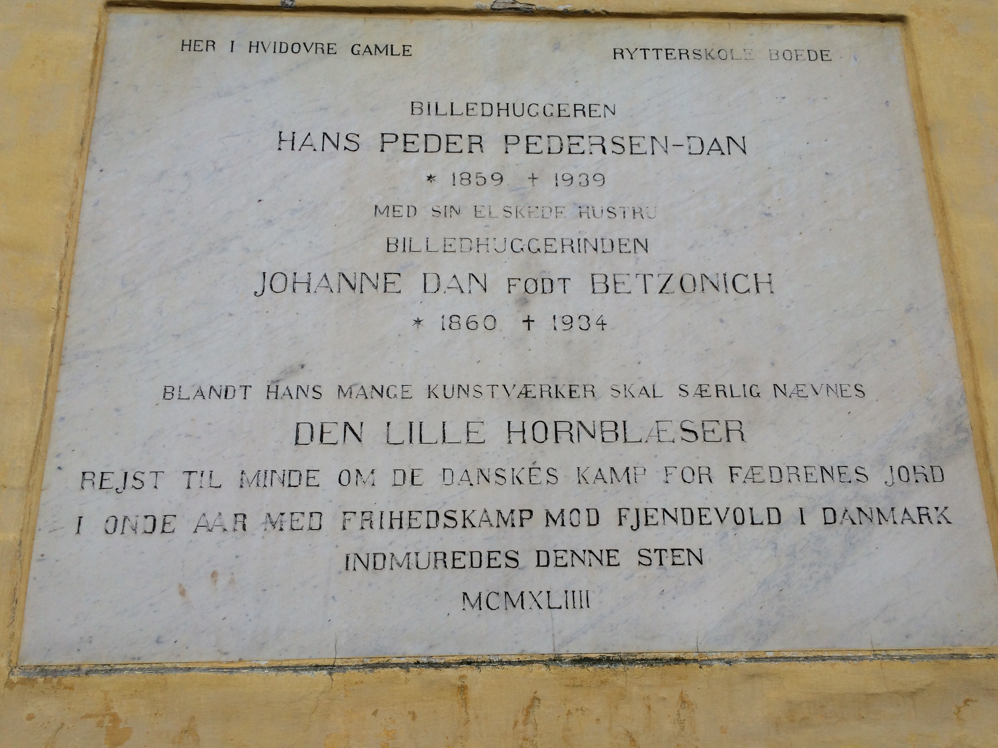 Memorial plaque dedicated to the sculptor Hans Peder Pedersen-Dan HER I GAMLE HVIDOVRE RYTTERSKOLE BOEDE BILLEDHUGGEREN HANS PEDER PEDERSEN-DAN 1859 + 1939 MED SIN ELSKEDE HUSTRU BILLEDHUGGERINDEN JOHANNE DAN FØDT BETZONICH 1860 + 1934 BLANDT HANS MANGE KUNSTVÆRKER SKAL SÆRLIGT NÆVNES DEN LILLE HORNBLÆSER REJSE TIL MINDE OM DE DANSKES KAMP FOR FÆDRENS JORD I ONDE AAR MED FRIHEDSKAMP MOD FJENDEVOLD I DANMARK INDMUREDES DENNE STEN MCMXLIIII